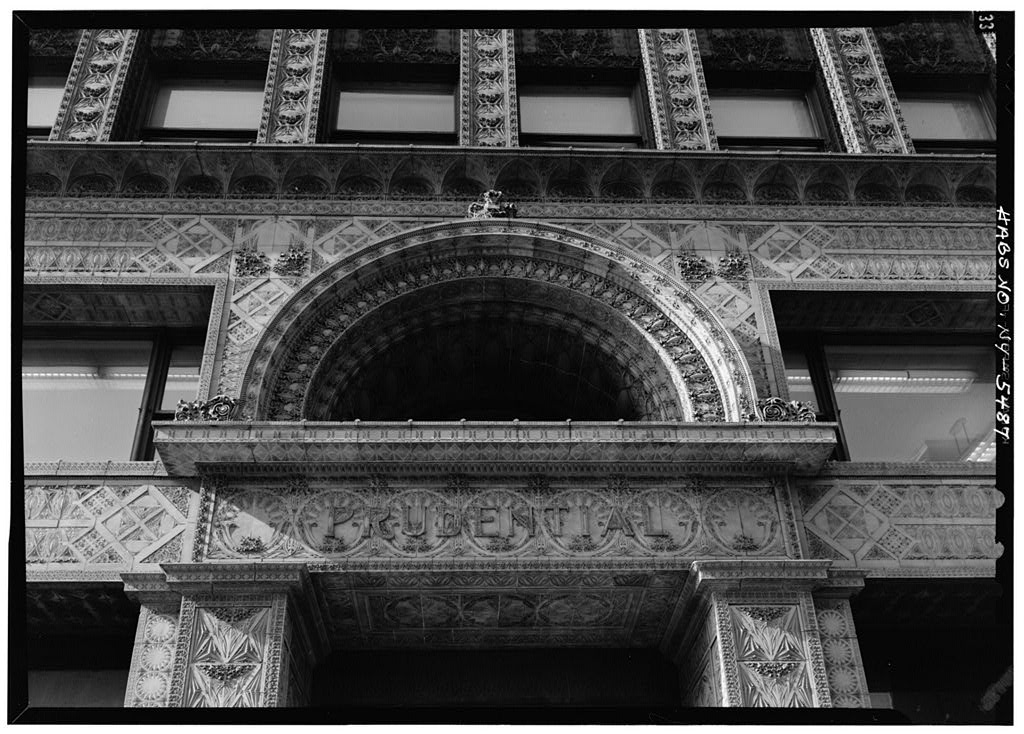 Prudential Building, 28 Church Street, Buffalo, Erie County, New York, USA. Architect Louis Sullivan; built 1894-1895.